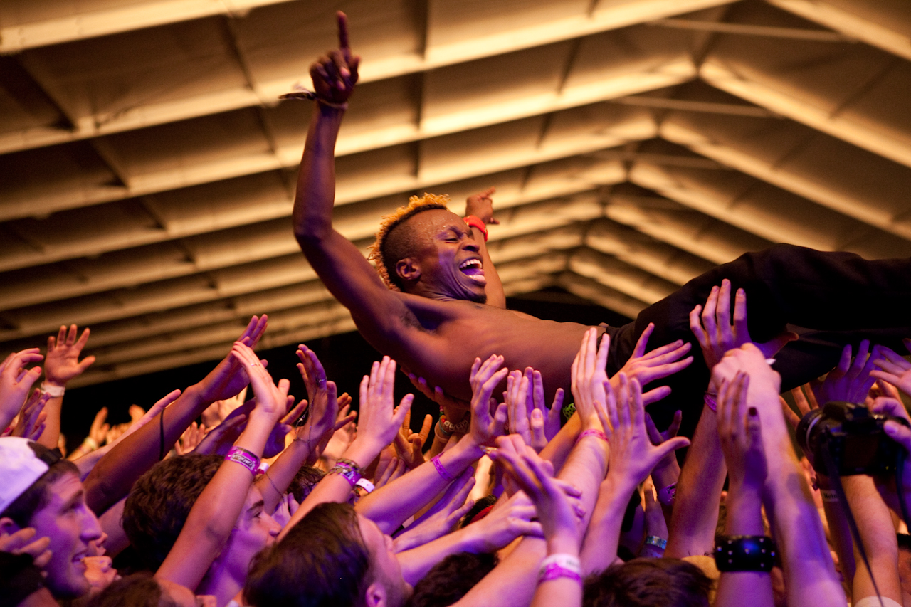 Taken on April 17, 2010 Canon EOS 5D Mark II